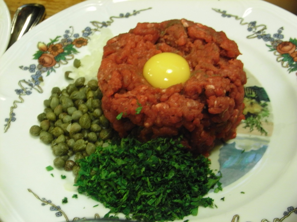 Steak tartare